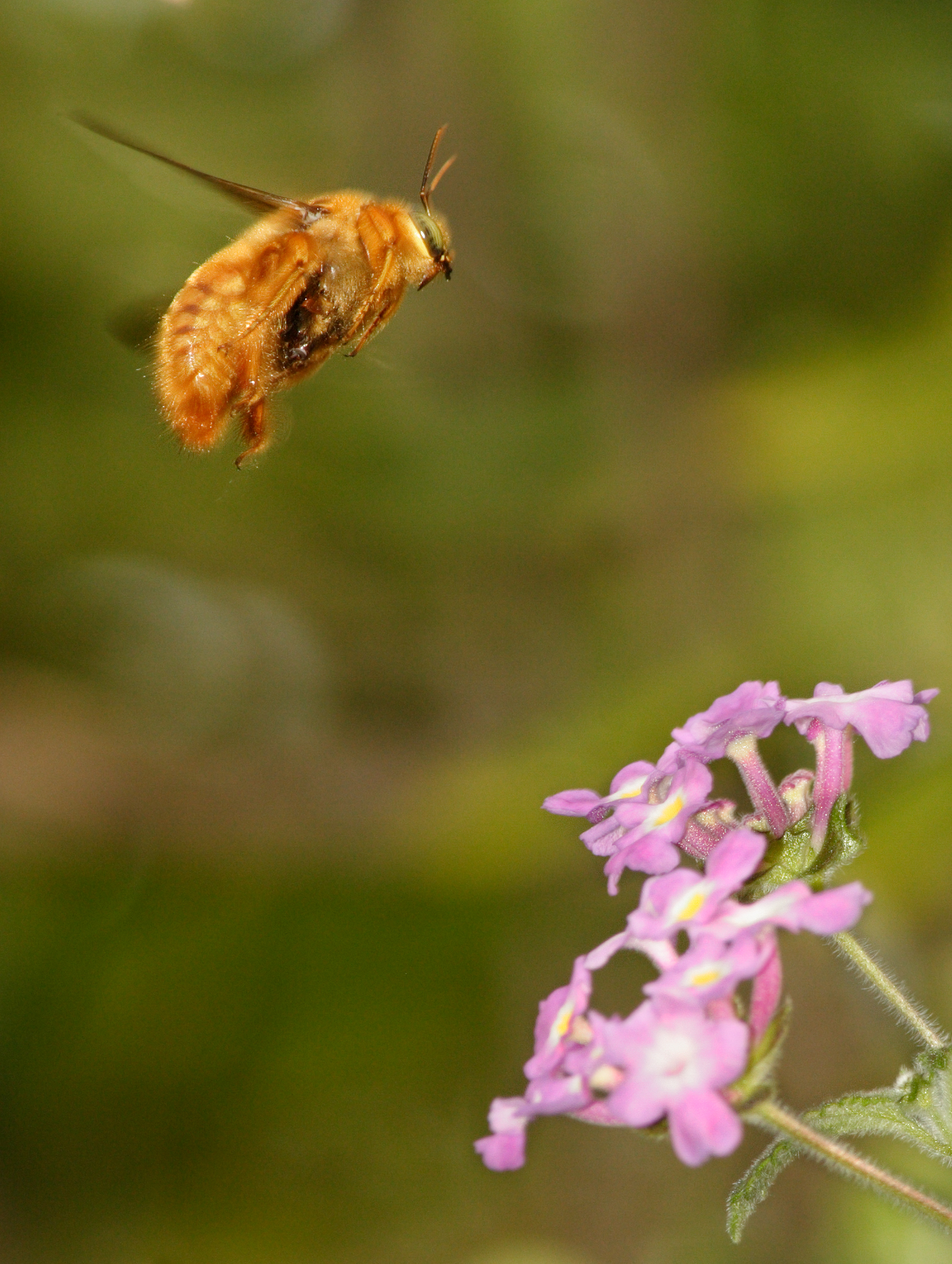 A male valley carpenter bee, Xylocopa sonorina, in flight with a flower. Los Angeles, California.